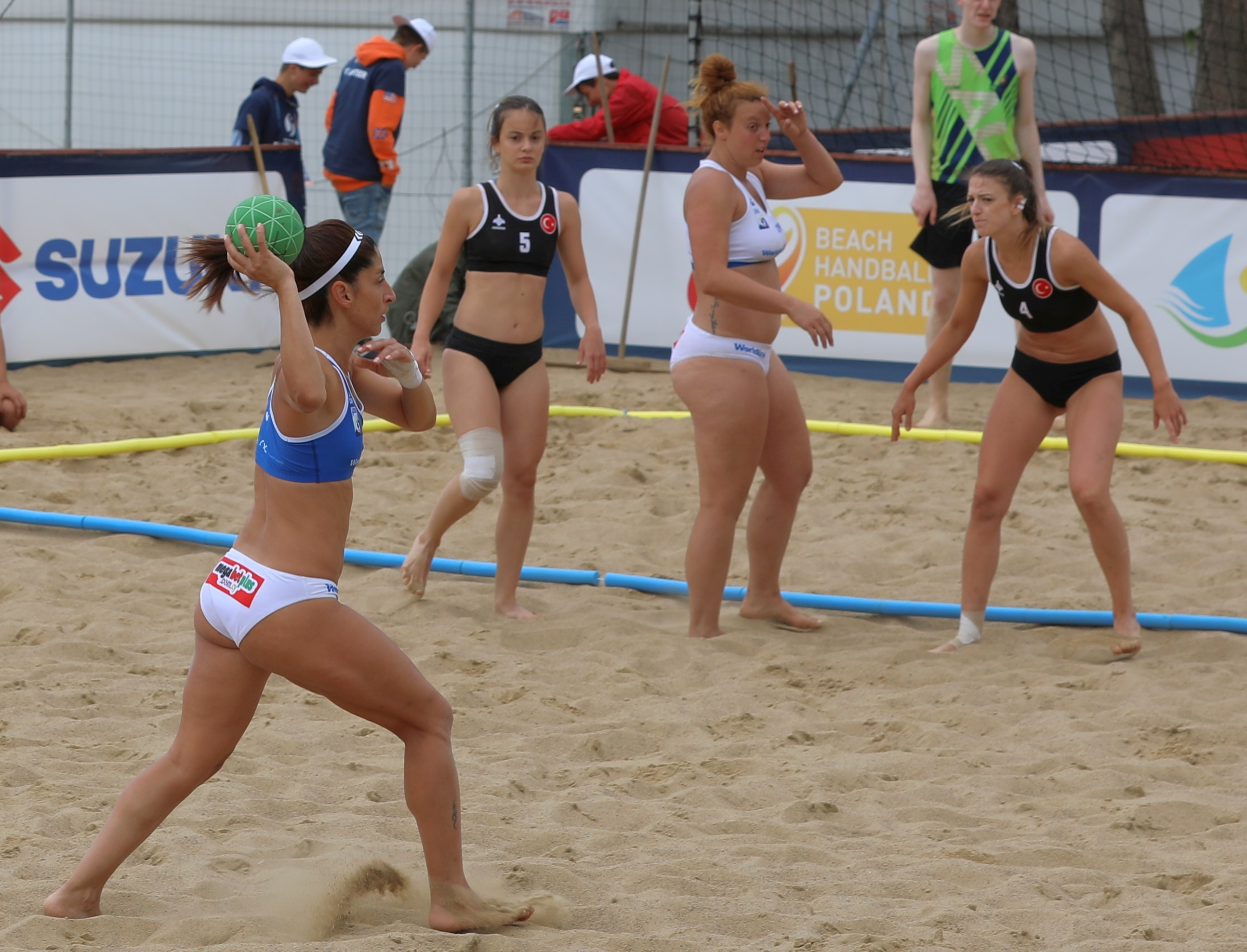 Beach handball Euro; Day 3: 4 July 2019 – Women Consolation Round Group III – Cyprus-Turkey 0:2 (14:24, 22:23)